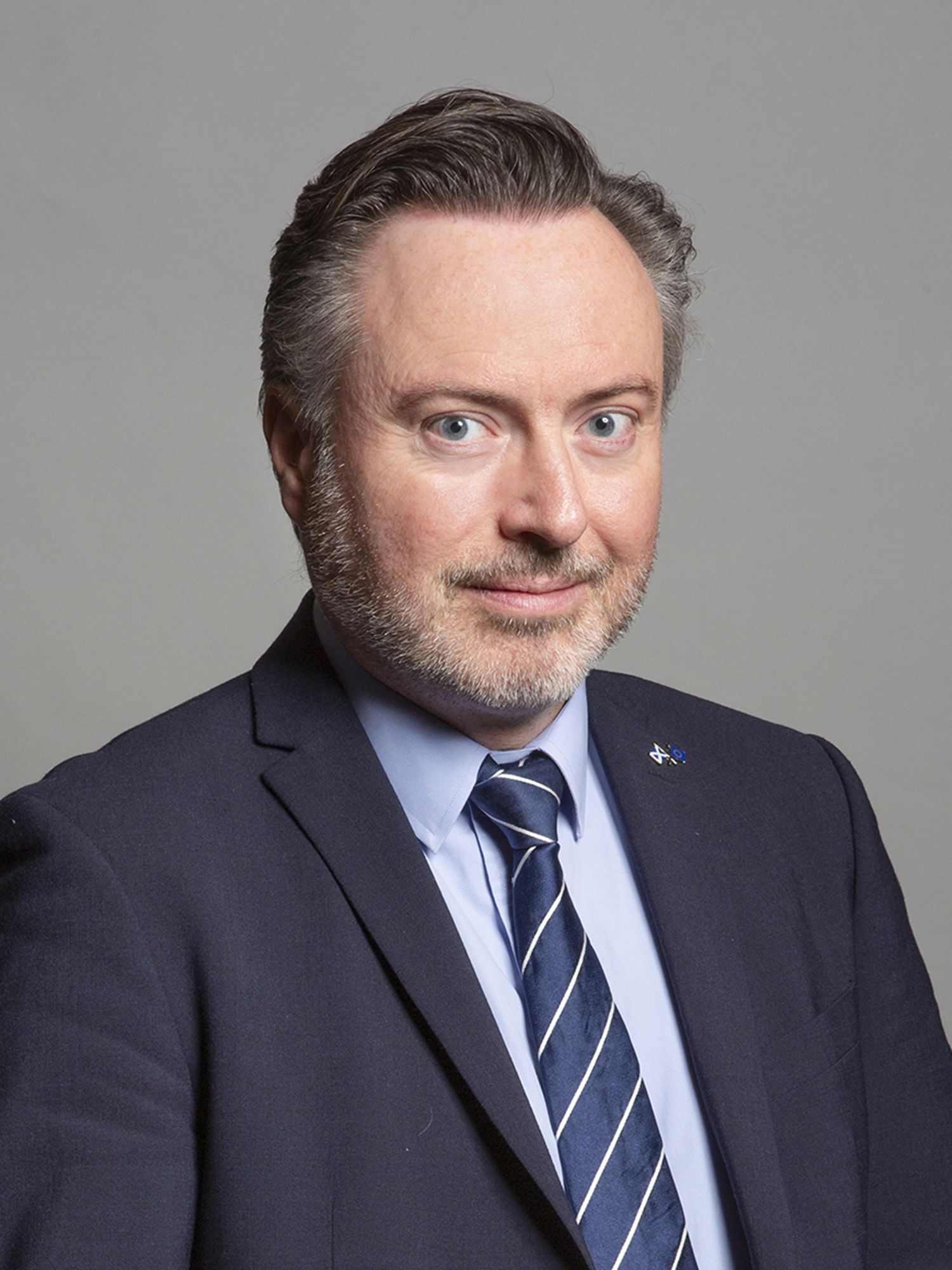 Official portrait of Alyn Smith MP 3×4 portrait of Alyn Smith